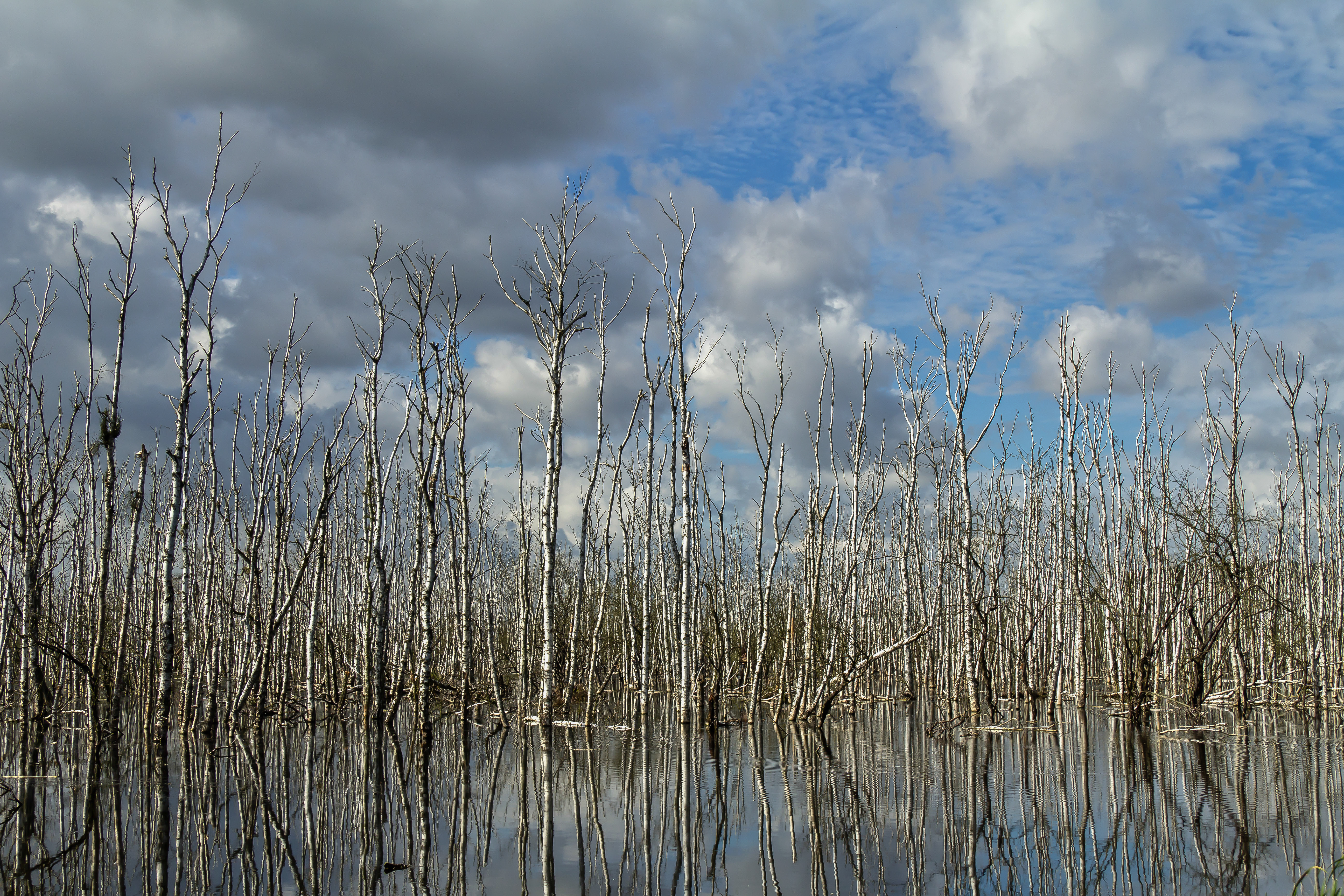 Regeneration of a bog near lake "Galenbecker See", nature reserve "Galenbecker See", Landkreis Mecklenburgische Seenplatte, Mecklenburg-Vorpommern, Germany